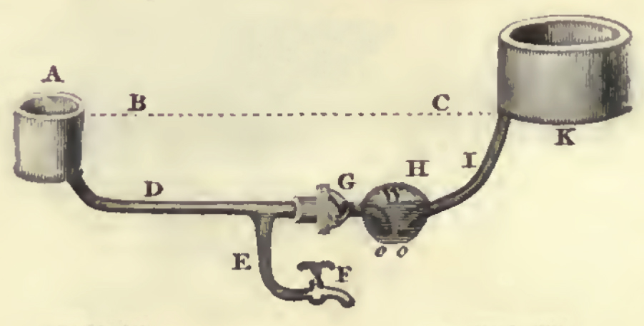 A represents a spring or an original reservoir, its upper surface coincides with the horizontal line BC and the bottom of reservoir K. D the main pipe, 1.5 inch in diameter, and nearly 200 yards in length. E a branch pipe, of the same diameter for the services of the kitchen offices, operated by the cock F, situated at least 18 to 20 feet below the surface fo the reservoir A. G respresents a valve box, restricting waterflow from left to right, and H an air vessel. The ends of the main pipe are inserted into H and bend downwards, to prevent the air from being driven out when the water is forced into it. W is the water level in H. By opening the cock F the water column D is set in motion and then abruply stopped by the closing of F, its momentum will open valve G and compress the air in H. The compressed air will force some, but not all of the water in H, via duct I, into reservoir K. Thus some water was pumped from the lower reservoir A into the higher reservoir K.